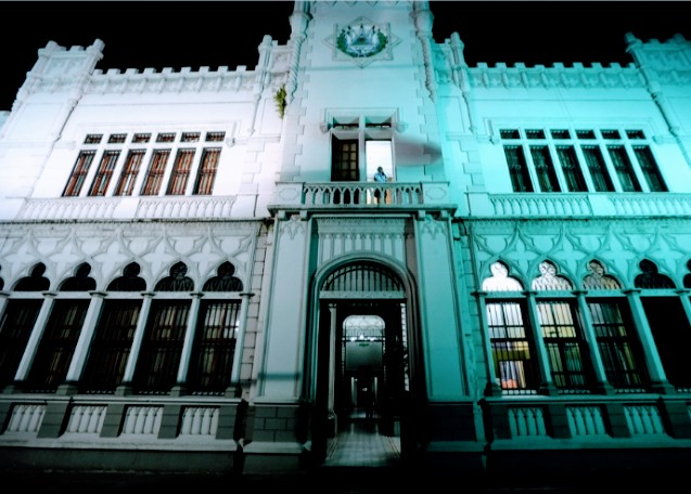 palace of the police